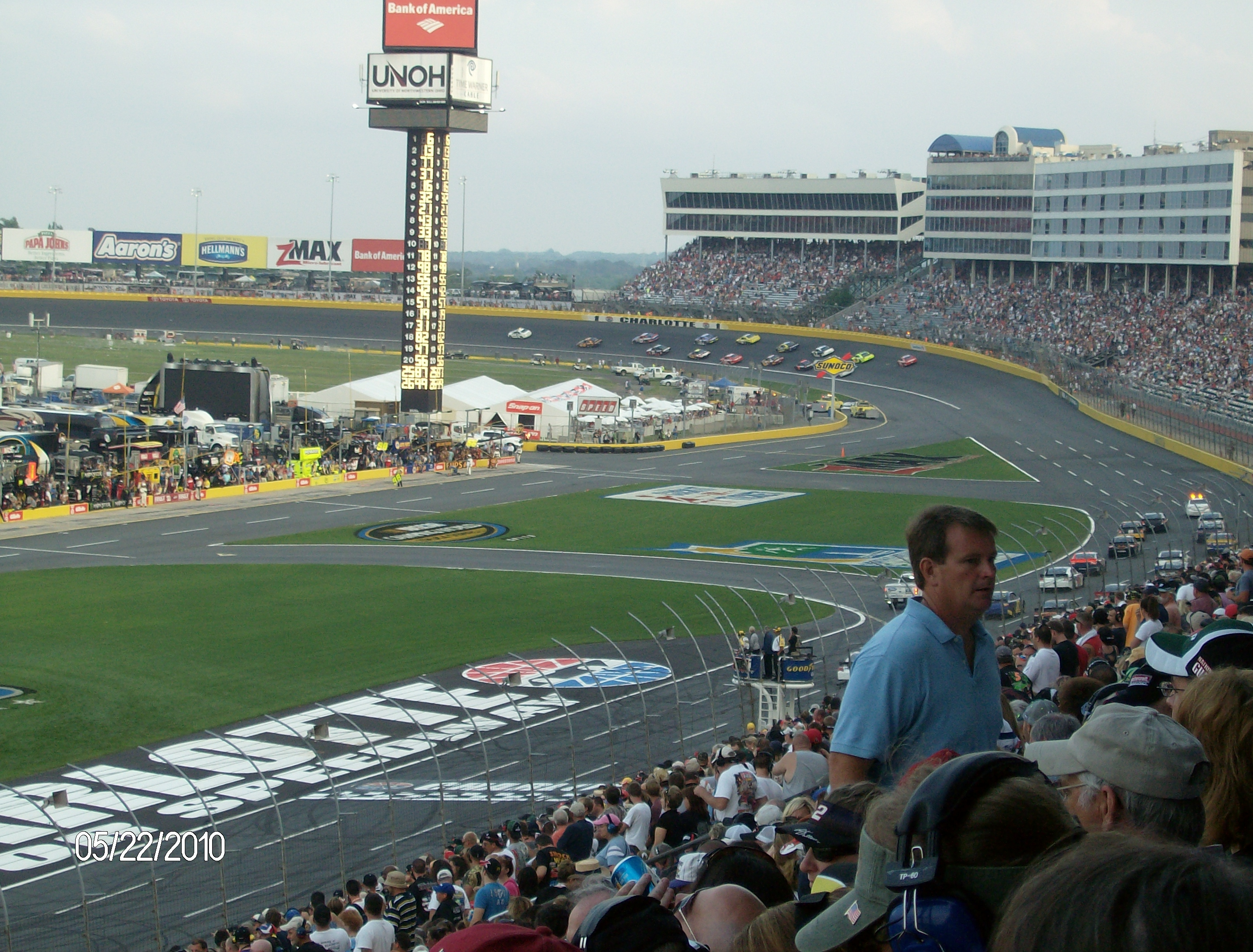 The All-Star Showdown about to begin at Charlotte Motor Speedway.